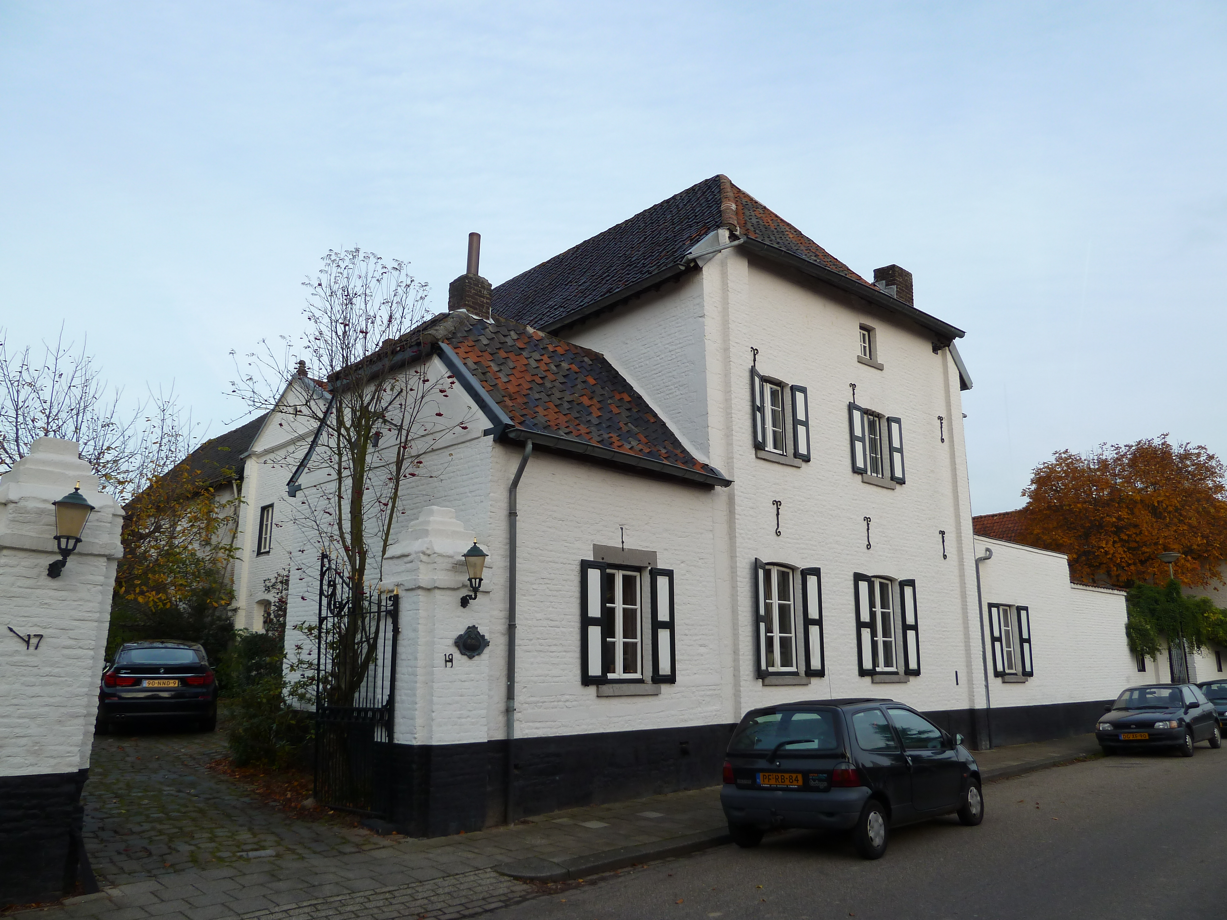 Dorpstraat 19, Ulestraten, Limburg, the Netherlands